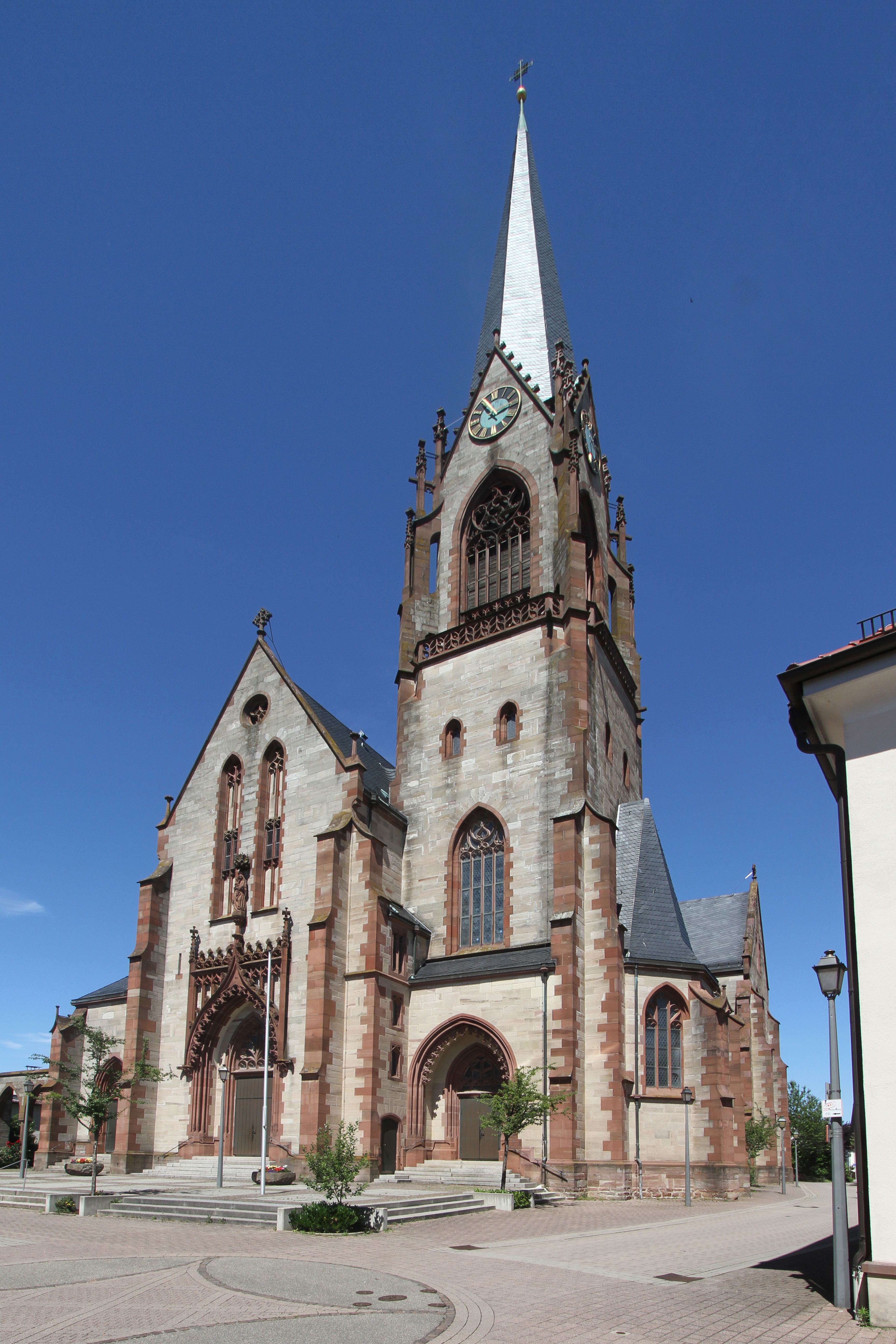 Church Maria Königin der Engel (Virgin Mary Queen of Angels) in Muggensturm, Baden, Germany